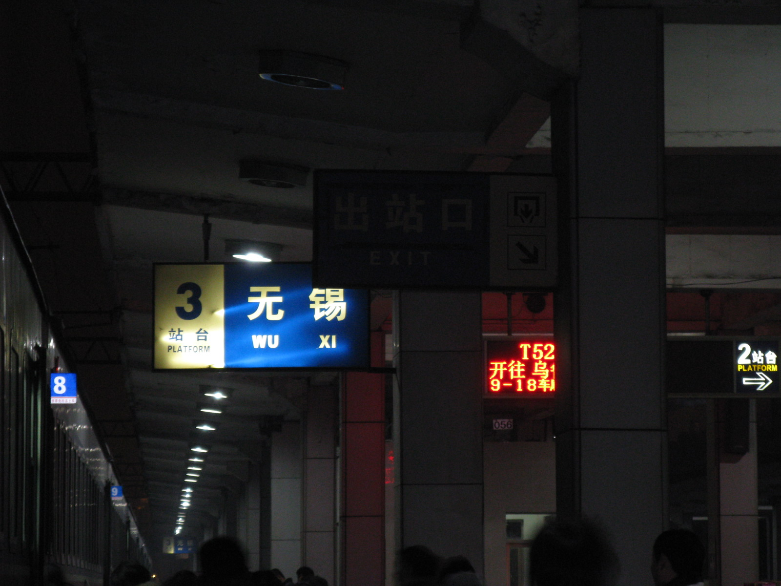 Wuxi Railway Station Platform